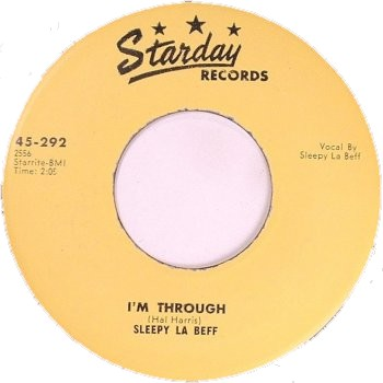 I'm Through by Sleepy LaBeef, Starday Records 1957.